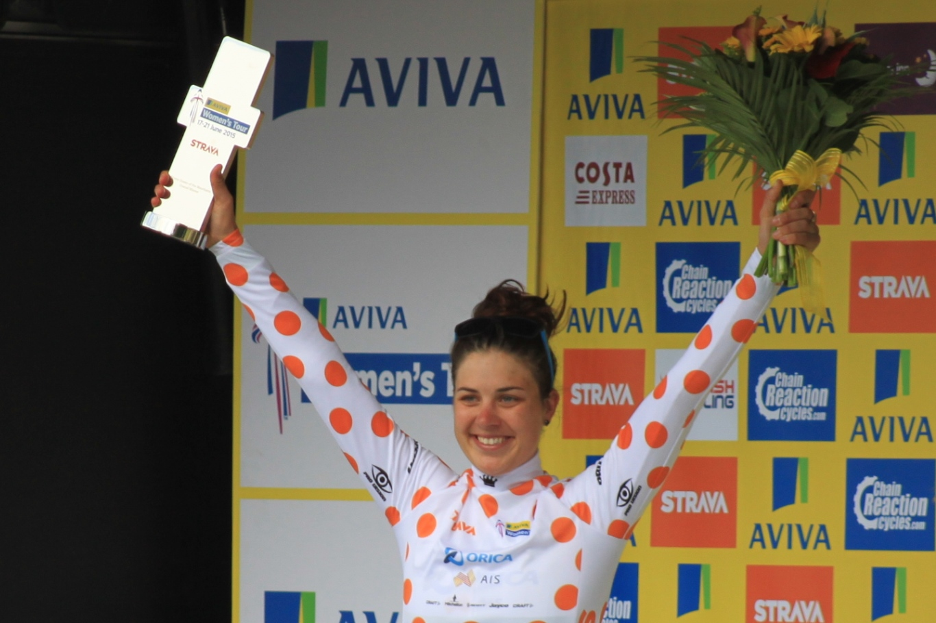 Melissa Hoskins, Queen of the Montains for The 2015 Women's Tour.